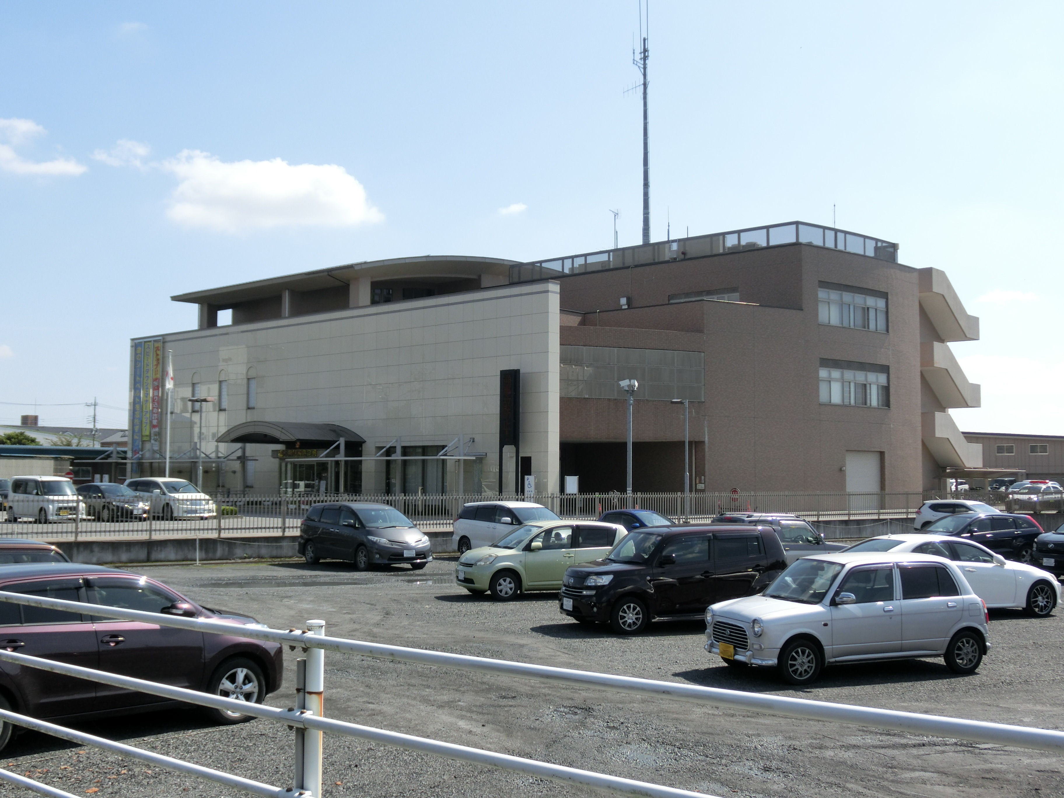 Kanuma Police Station